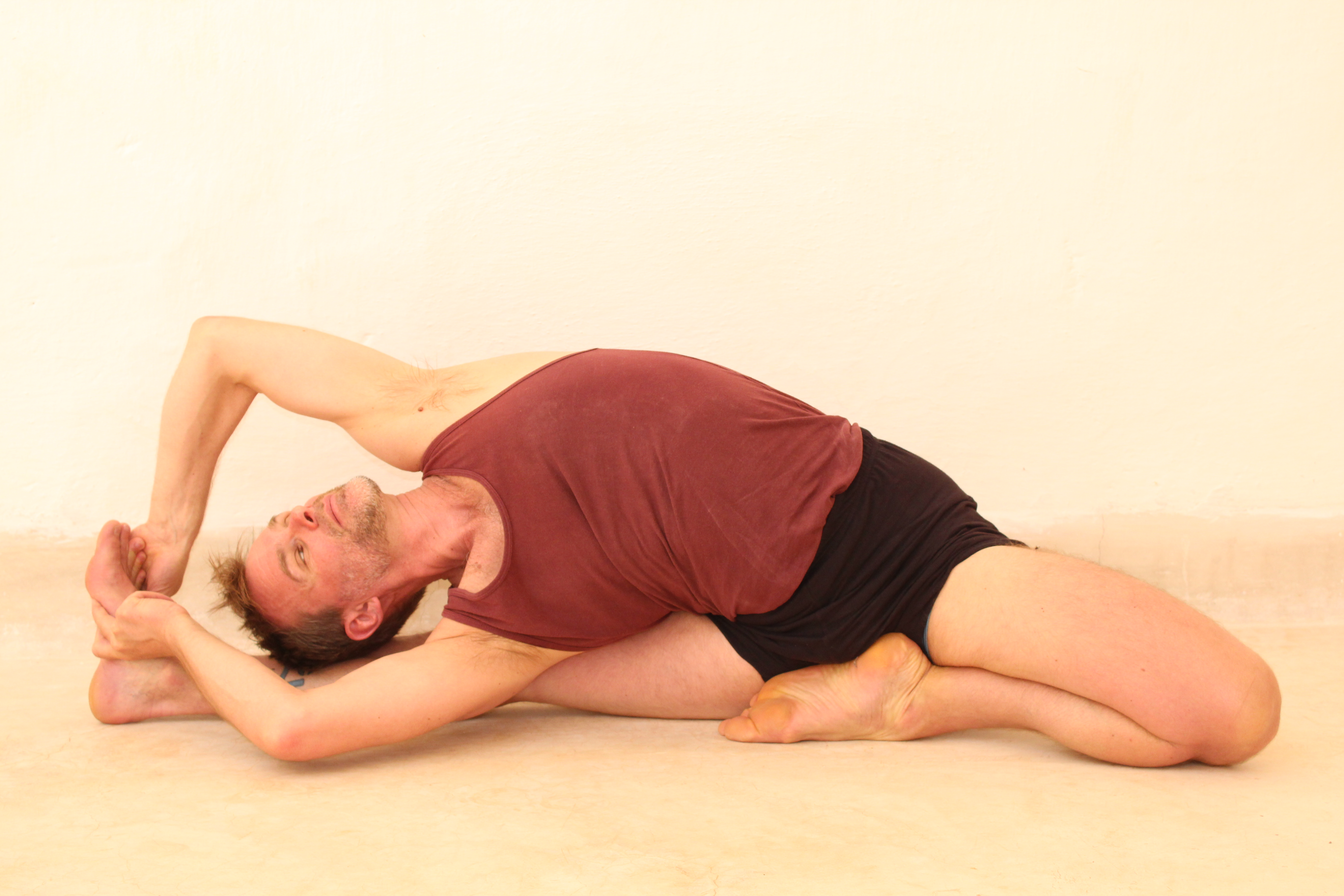 Jim in Parivrtta Janu Sirsasana